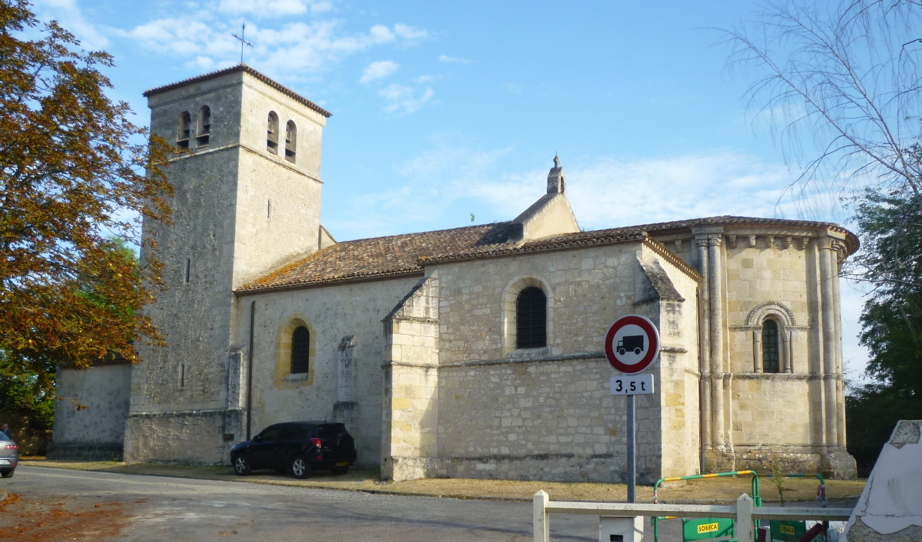 summer 2012 .